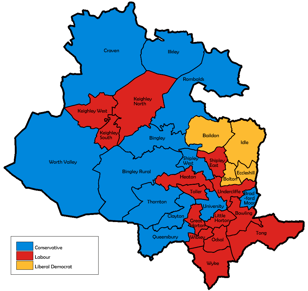 Ward map of Bradford Council with political colouring for the 1999 local election.